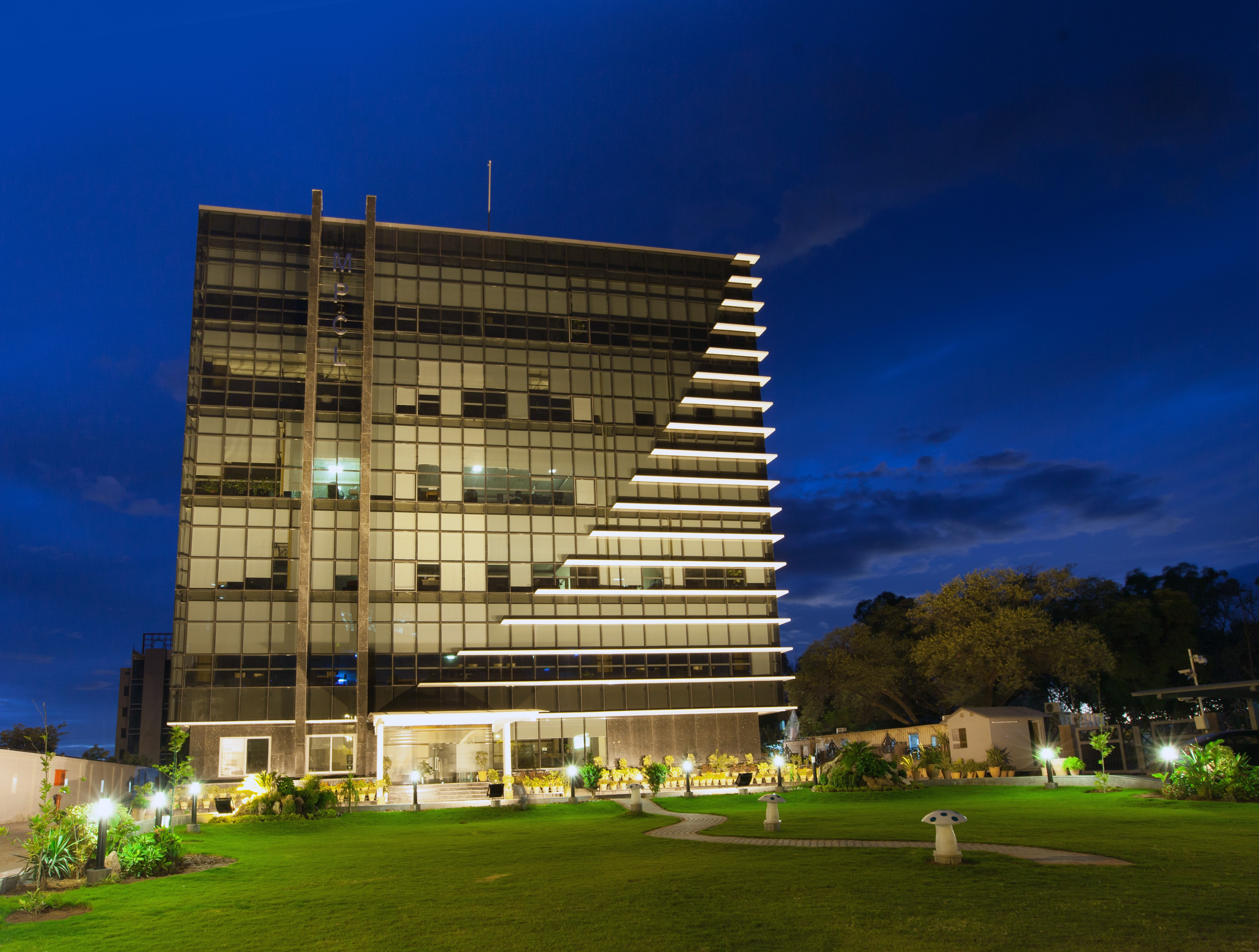 Mari Petroleum, Head Office